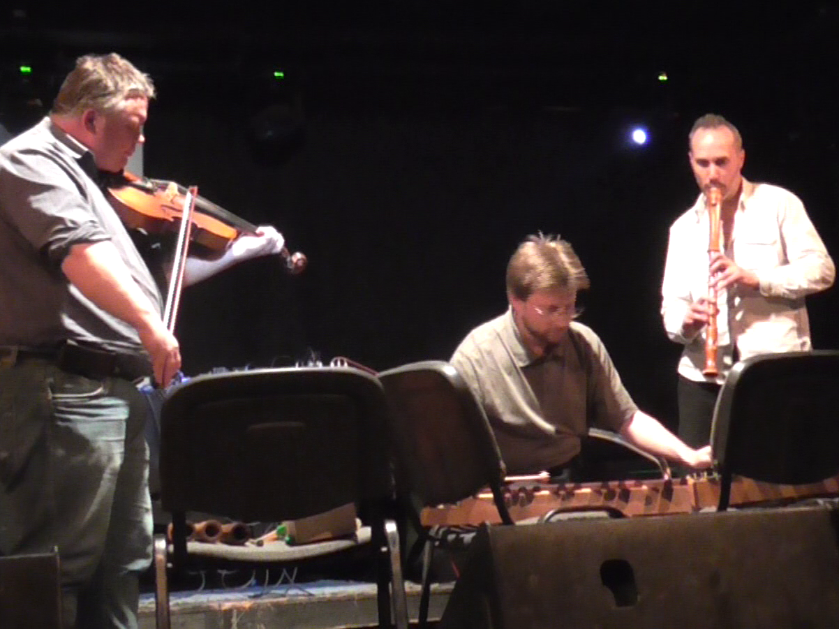 The 4'34" Camerata & Zsolt Sőrés